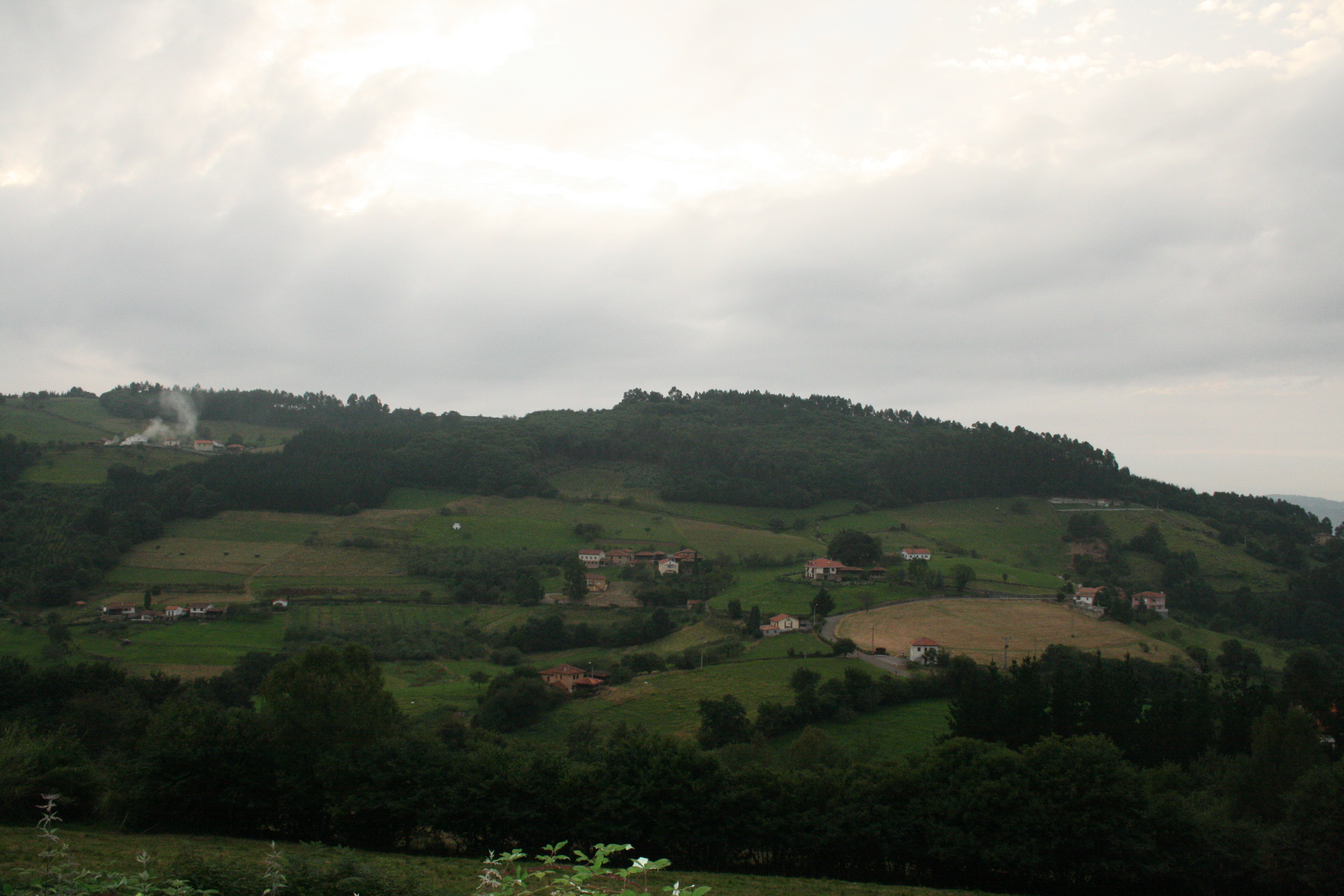 Vista de La Mortera desde Las Llamargas